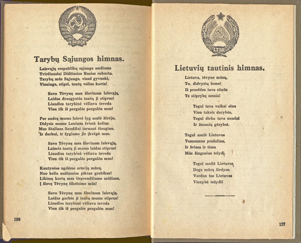 Anthem of the Soviet Union and the Lithuanian SSR in a book from 1946.